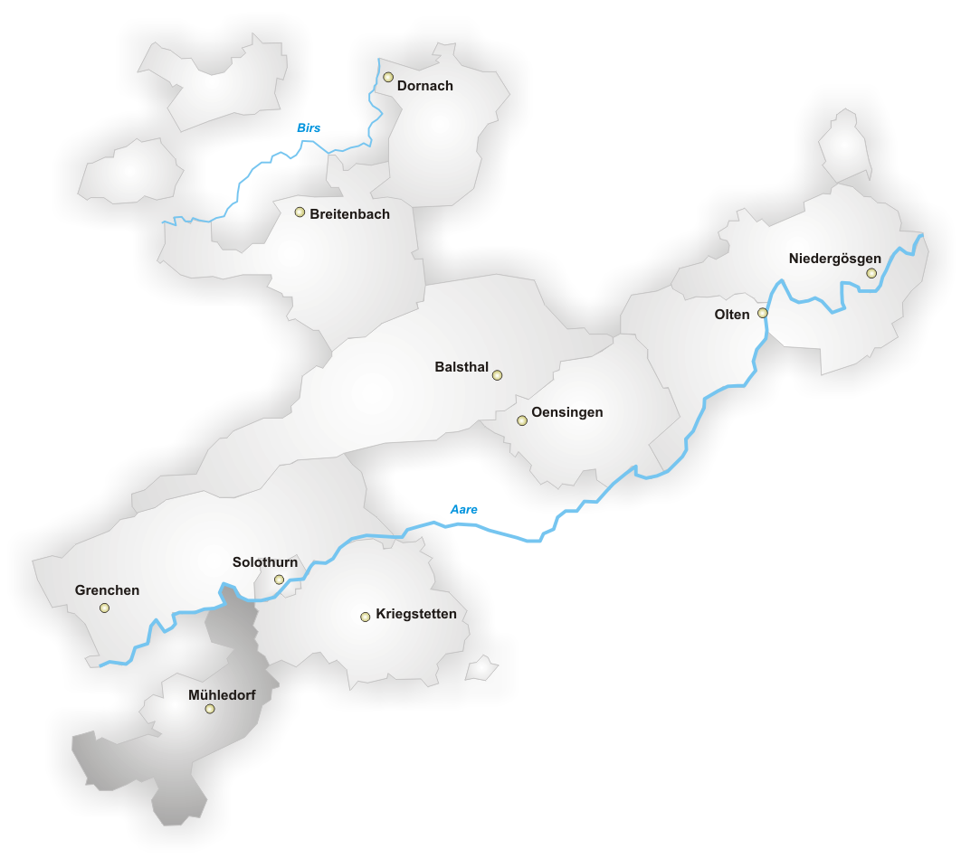 District Bucheggberg